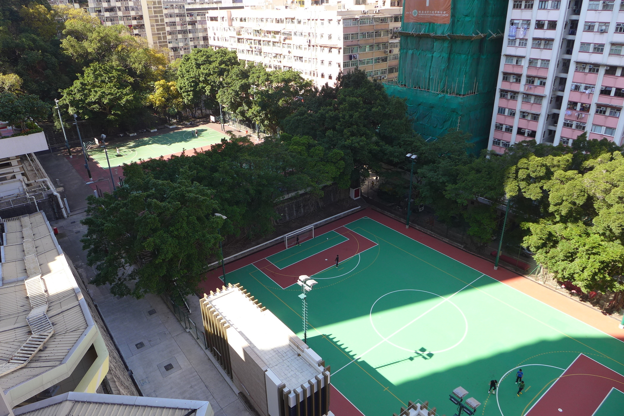 Kennedy Town Playground